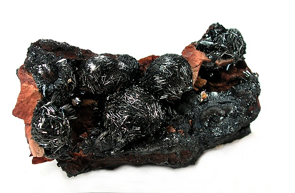 Ramsdellite Locality: Sierra County, New Mexico, USA (Locality at ) This specimen is about the best you can ask for in the species, with lustrous, wet-looking, jet black crystals in 1.2 cm radial aggregates richly covering the matrix. It IS a most impressive specimen, in person, for a black mineral - without even knowing anything about the species. But, given what it is, I find it one of the most interesting pieces in the update for rarity. 5.7 x 3.5 x 2.2 cm